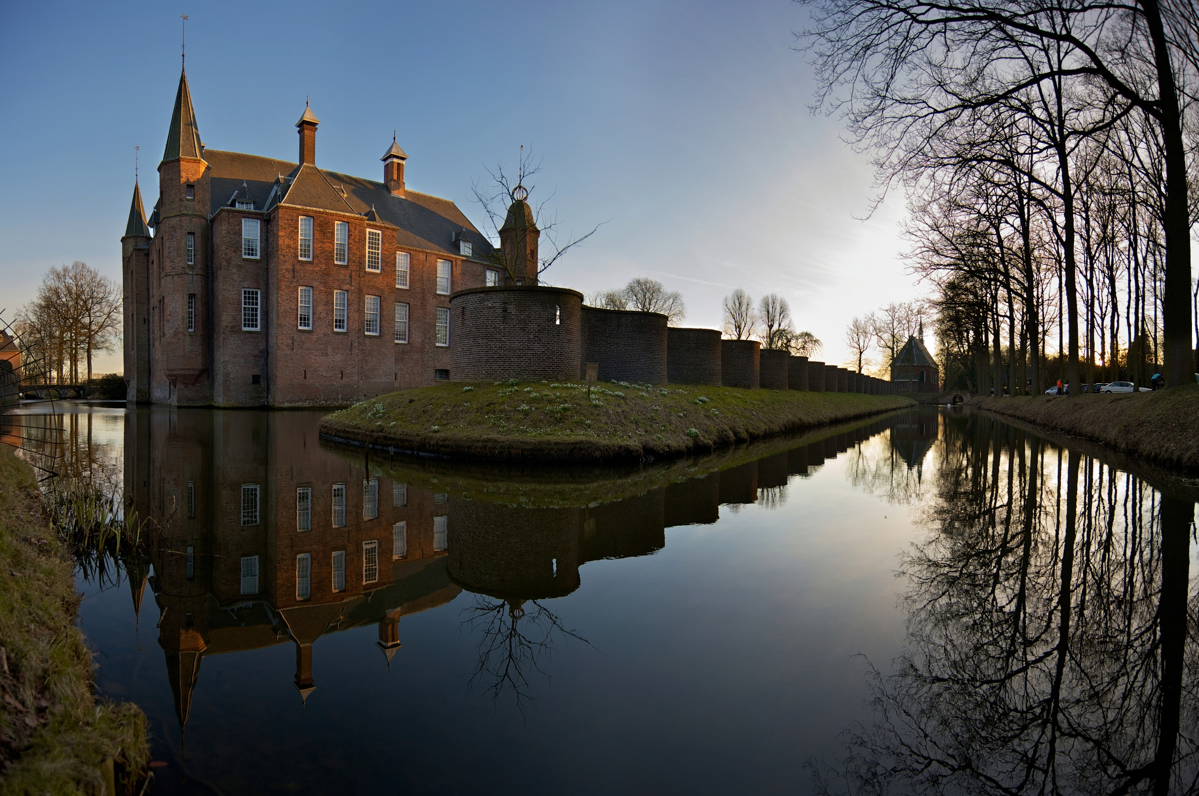 Slot Zuylen and Reflexion, The Netherlands.